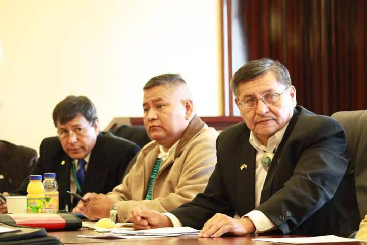 Navajo Delegation including Councilman Kenneth Maryboy & Davis Filfred along with Vice-President Shelly meeting with the Utah State Legislature